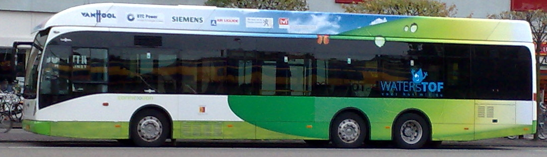 Van Hool fuel cell Europe (hybrid fuel cell-electric) bus.